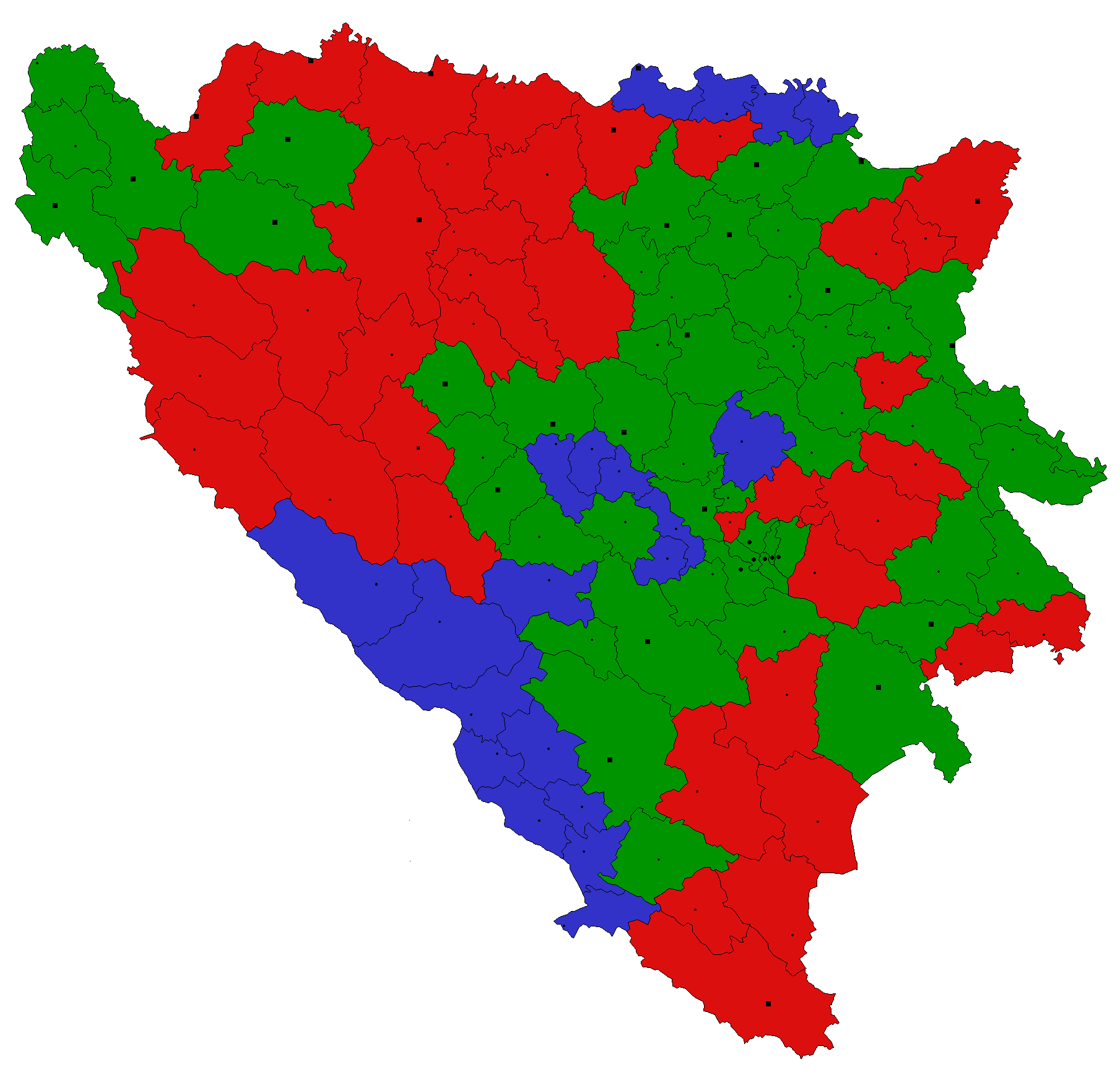 The 1992 Carrington-Cutilero Peace Plan